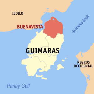 Map of Guimaras showing the location of Buenavista